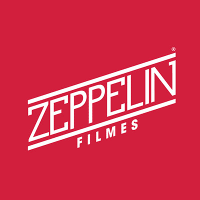 Zeppelin filmes